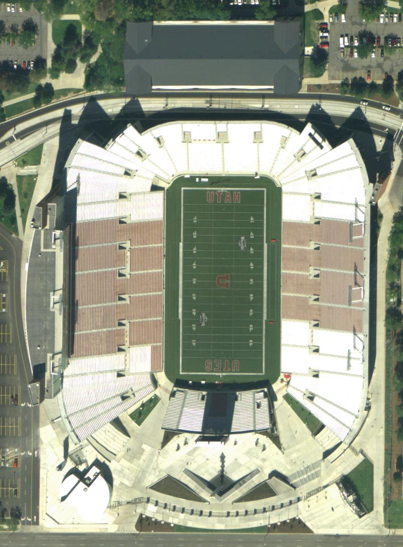 Rice-Eccles Stadium in Salt Lake City, Utah satellite view taken September 2003.